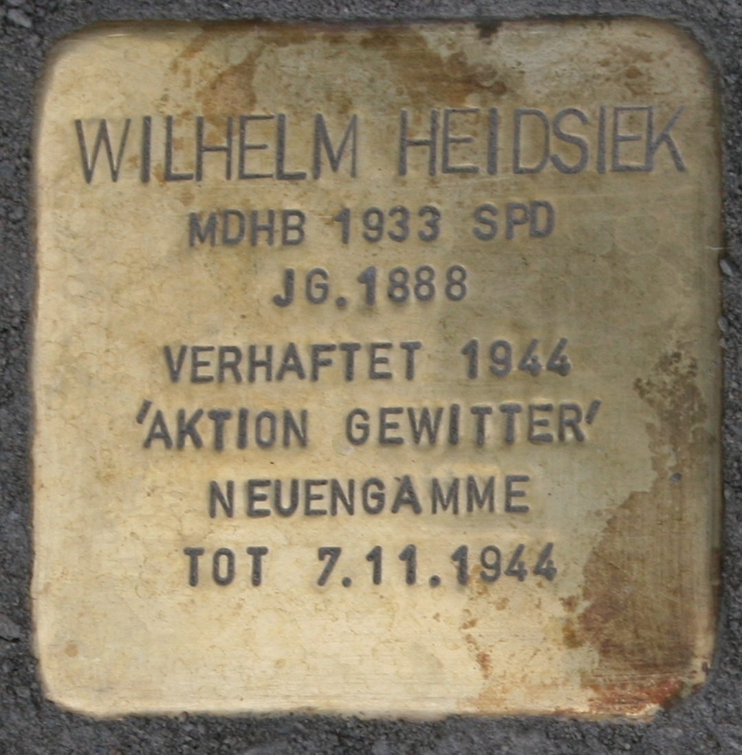 Stolperstein for Wilhelm Heidsiek, member of the Bürgerschaft Hamburg, member of the resistance and victim of the Nazis. Position: At the left side of the main entrance of the city hall in Hamburg, laid on June 8, 2012